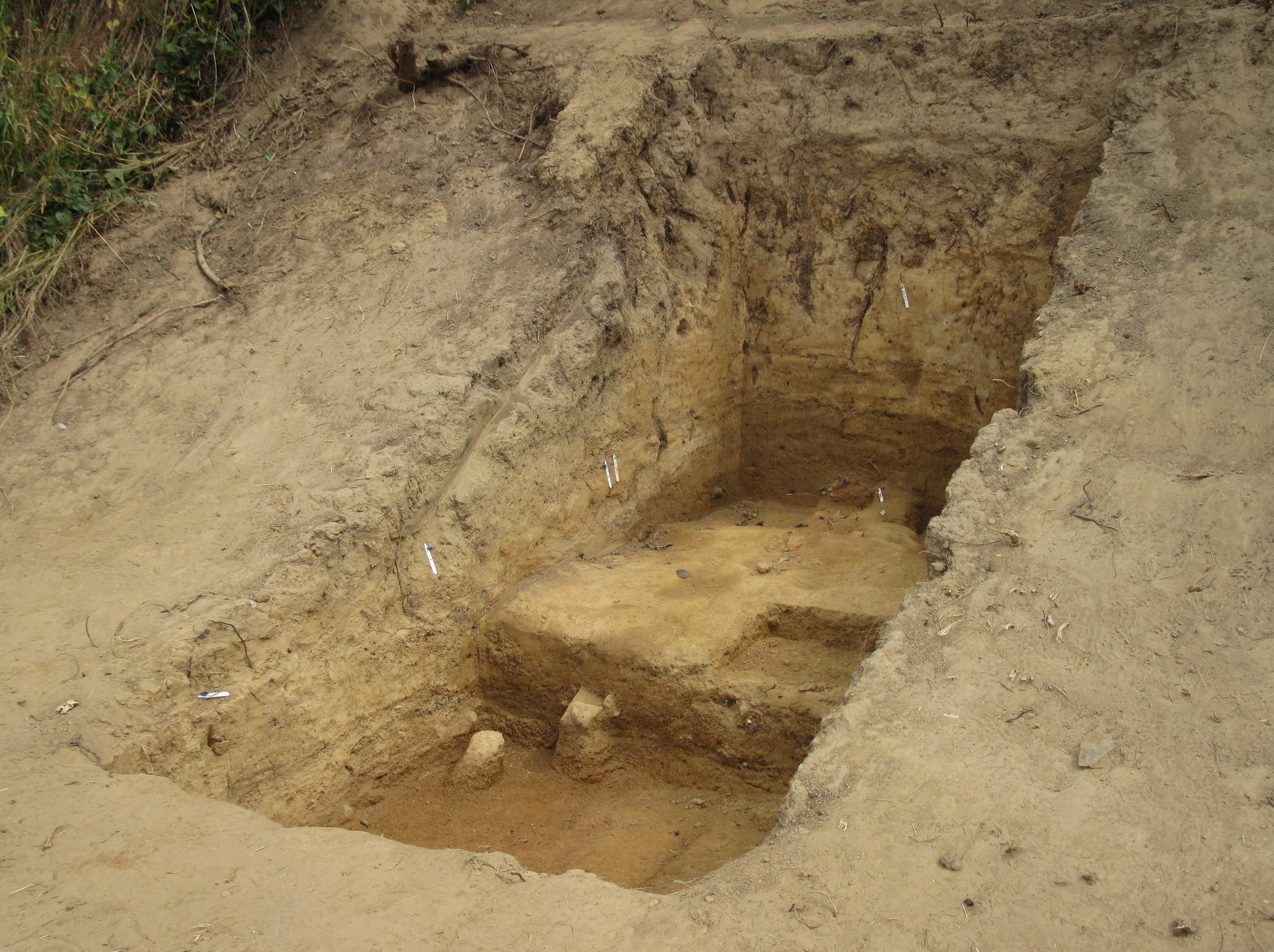 Ice Age Island, Jersey - The project fieldwork and research has already uncovered hunting sites and submerged Ice Age landscapes, ranging from the earliest occupation by Neanderthals over 250,000 years ago, to the arrival of the first modern humans. In July 2013, a dig and pop-up museum at Les Varines, St Saviour. Nrf: Un projet dé dêfouithie en Jèrri pouor dêmuchi d's êqu'sîns d'l'Âge dé Gliaiche: en 2013 nou travaillit ès Vathinnes et y'avait un musée geuthi pouor explyitchi l'histouaithe et l'projet.